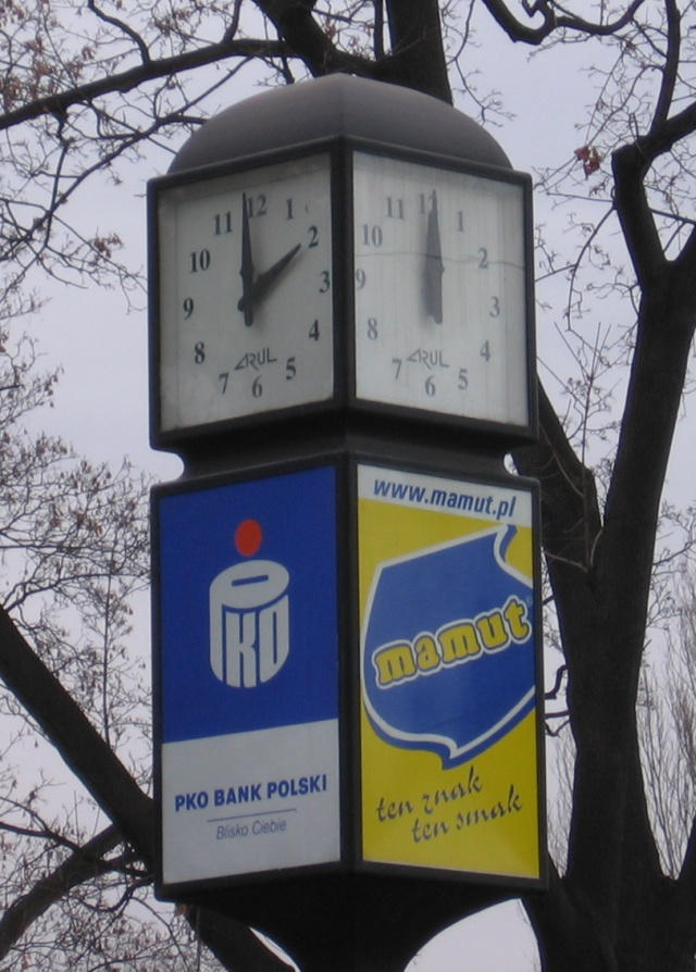 Time relativity evidence...